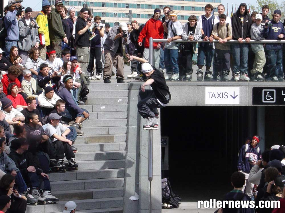 Imyta : one of the biggest aggressive roller contest worlwide photo taken by David Durrenberger of